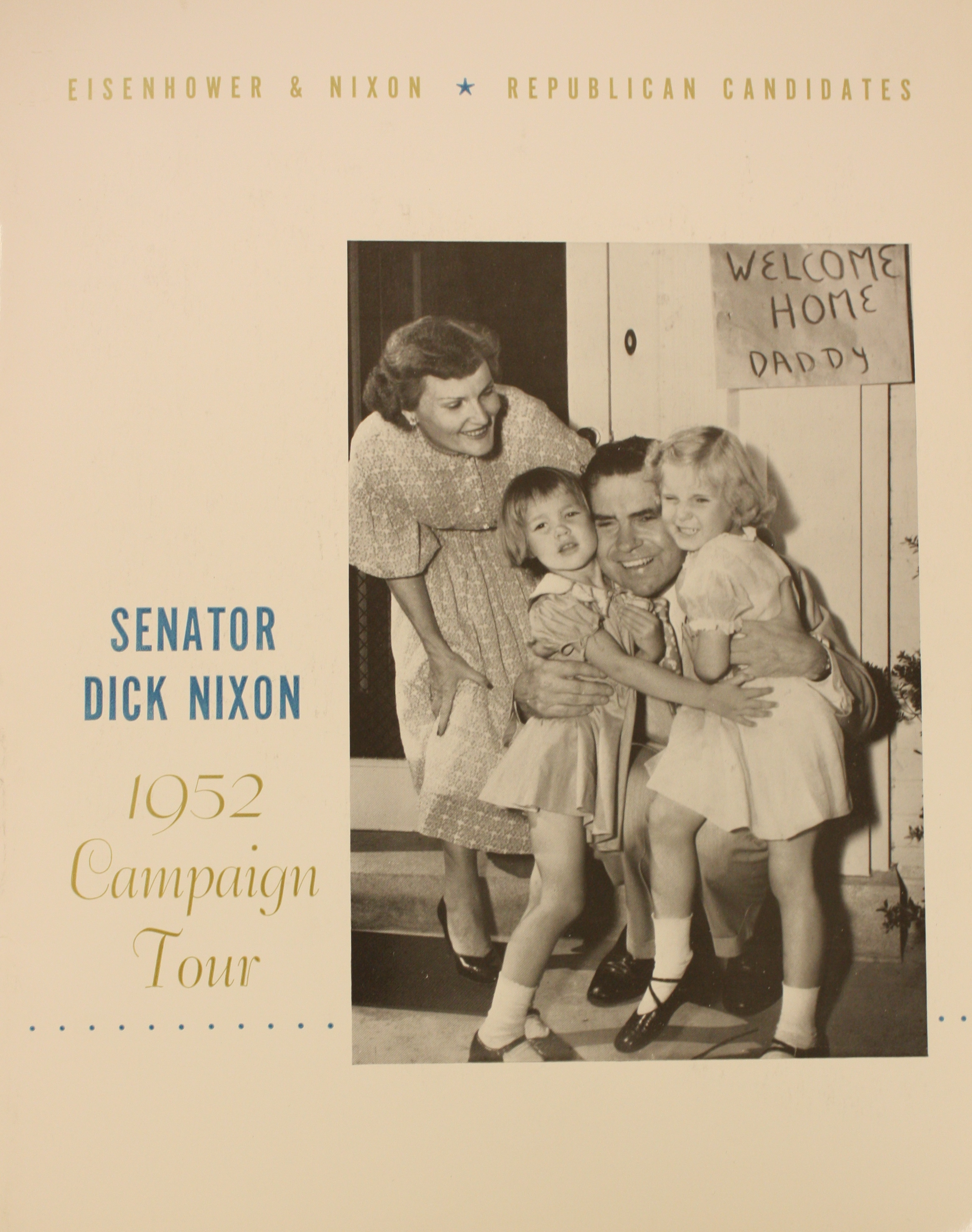 Menu from Nixon whistle-stop tour of the West Coast, broken off so he could make the Checkers speech